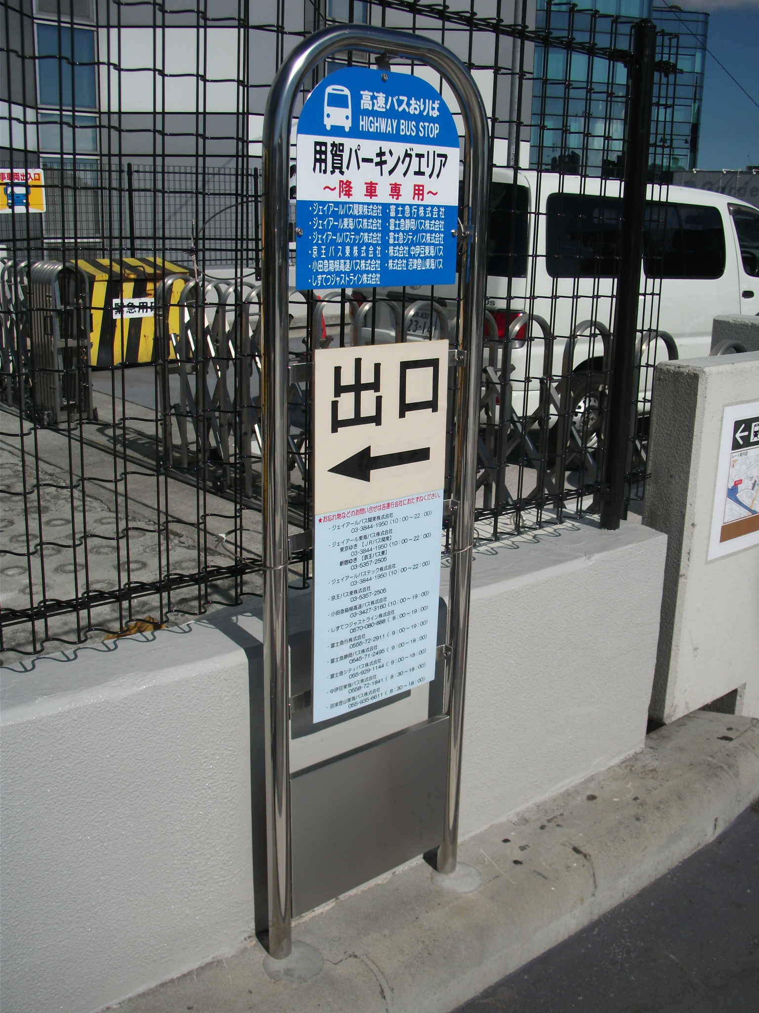 Yoga Parking Area Highway Bus stop